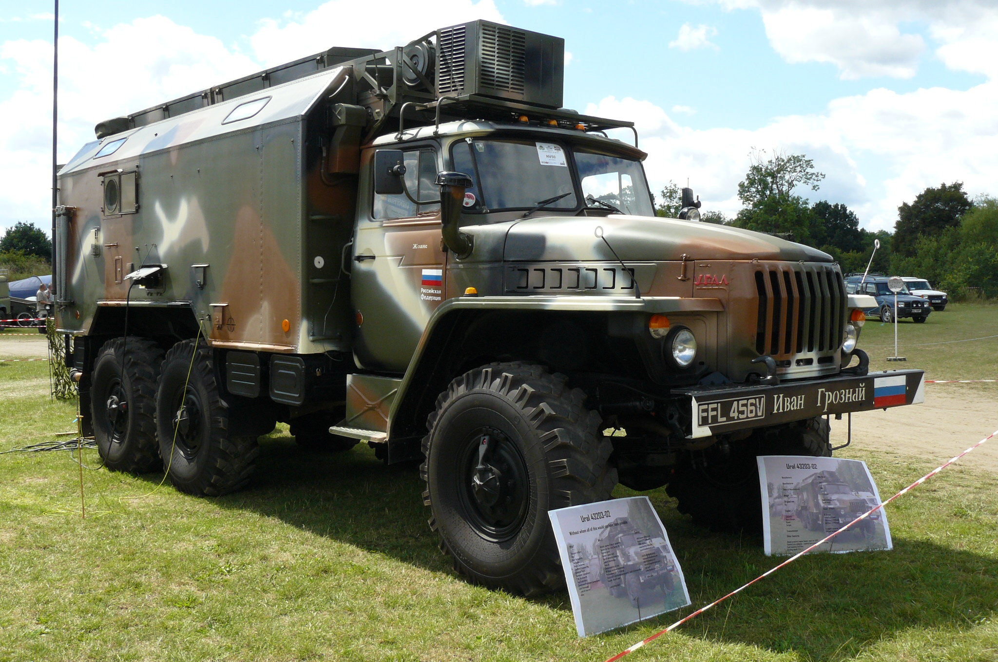 Ural 43203-02 seen at War & Peace show in July 2011